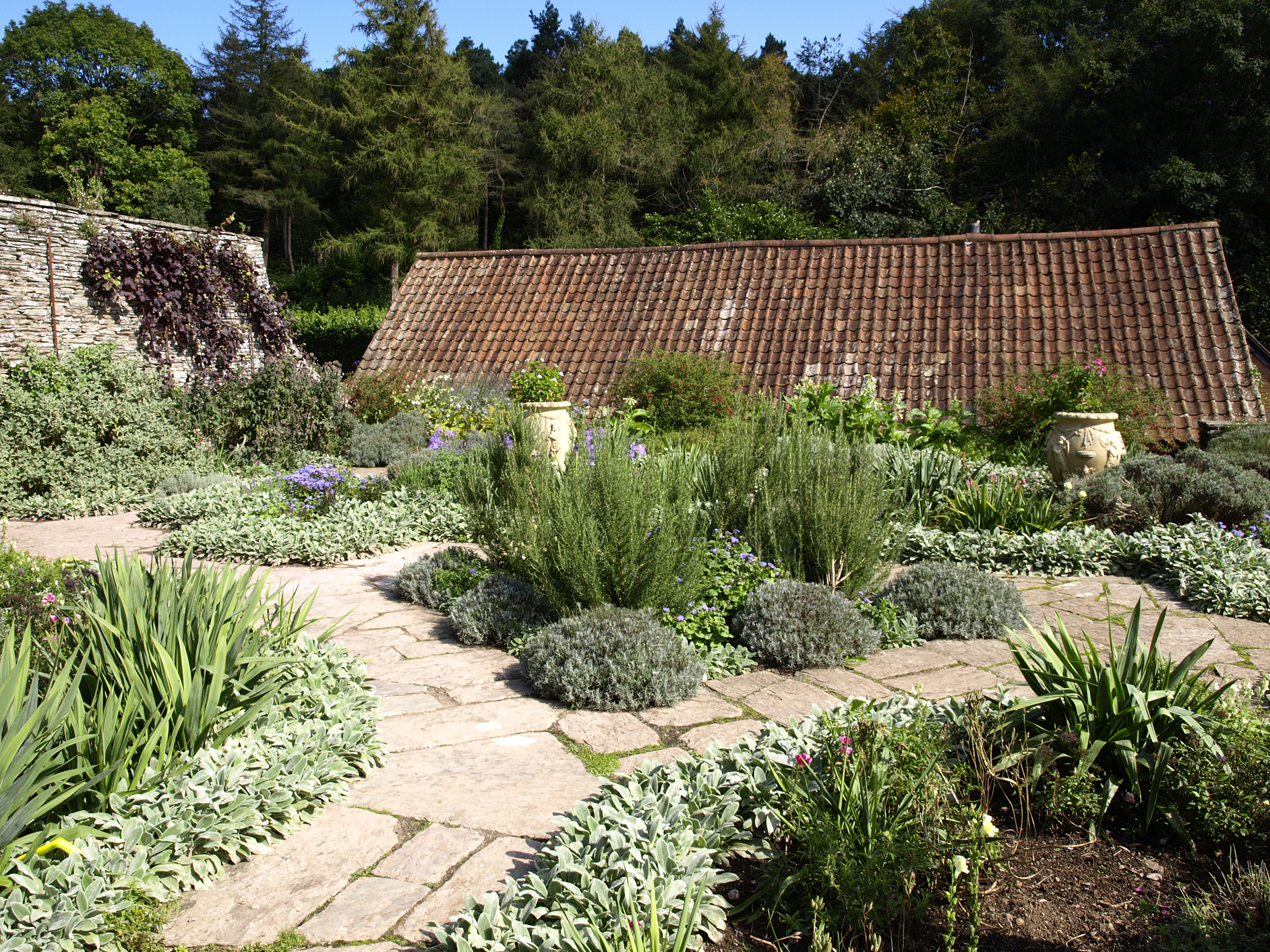 Hestercombe Gardens, Taunton, Somerset, UK. Designed by Sir Edward Lutyens and established in 1904-08.